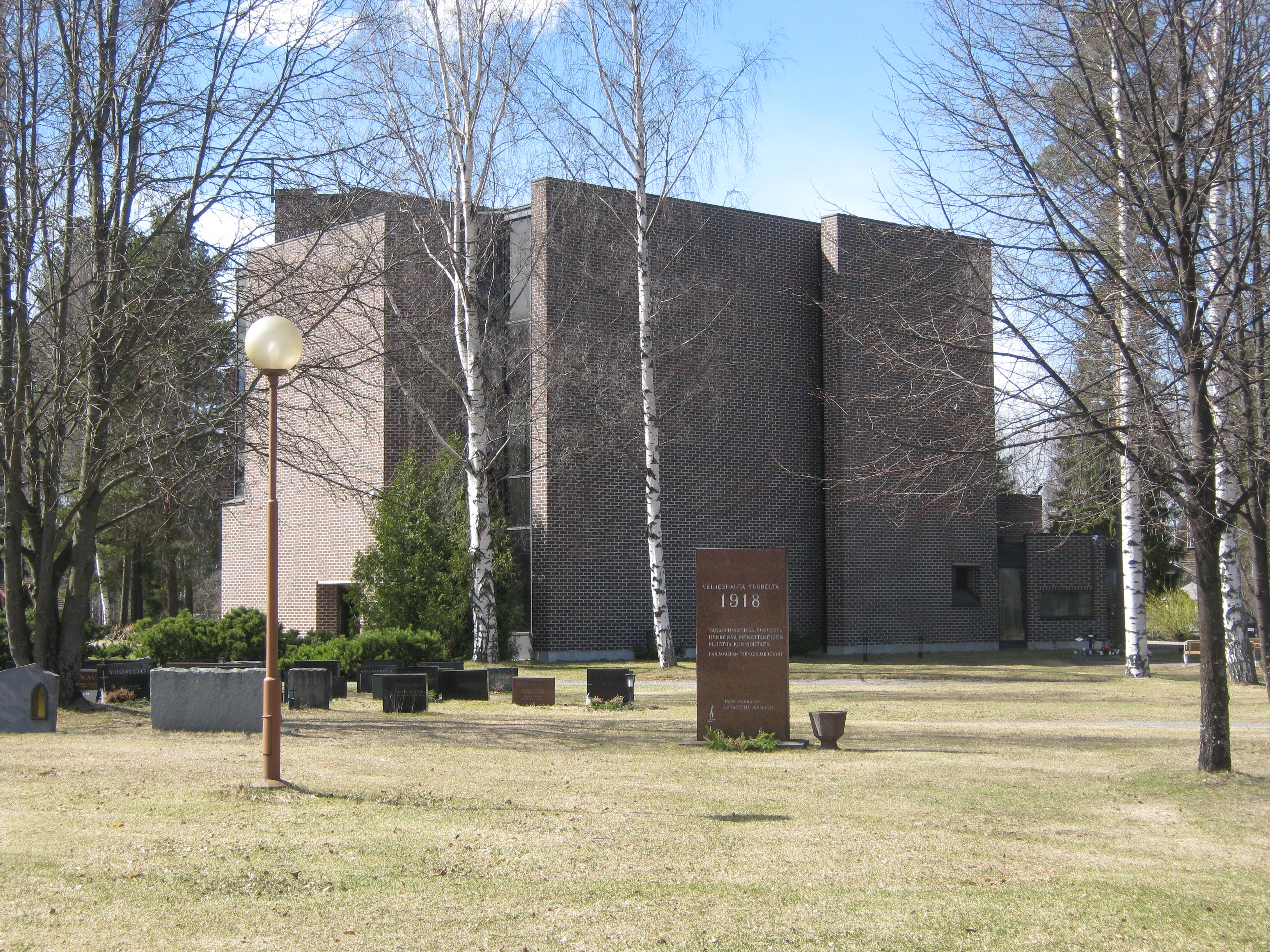 Harjavalta Church in Harjavalta, Finland, was designed by architect Pekka Pitkänen and completed in 1984.